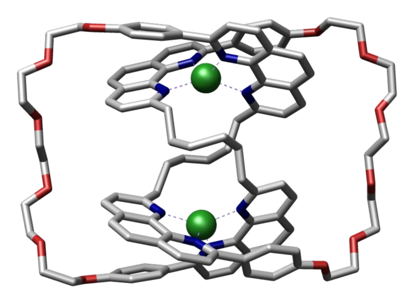 This is a picture generated from crystal structure data reported by Albrechtgary, A. M.; Dietrichbuchecker, C. O.; Guilhem, J.; Meyer, M.; Pascard, C.; Sauvage, J. P. in Recueil des Travaux Chimiques des Pays-Bas. Journal of the Royal Netherlands Chemical Society, Year 1993, Vol 112, Pages 427-428. It shows a molecular knot with two copper(I) templating ions bound within it. It was made by myself and is free to be used by all.